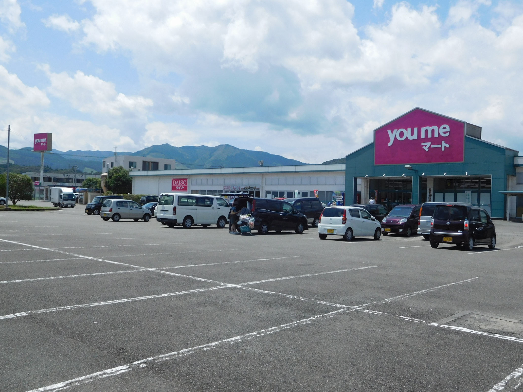 Supermarket "you me Mart" Hitoyoshi Store in Hitoyoshi City, Kumamoto, Japan.